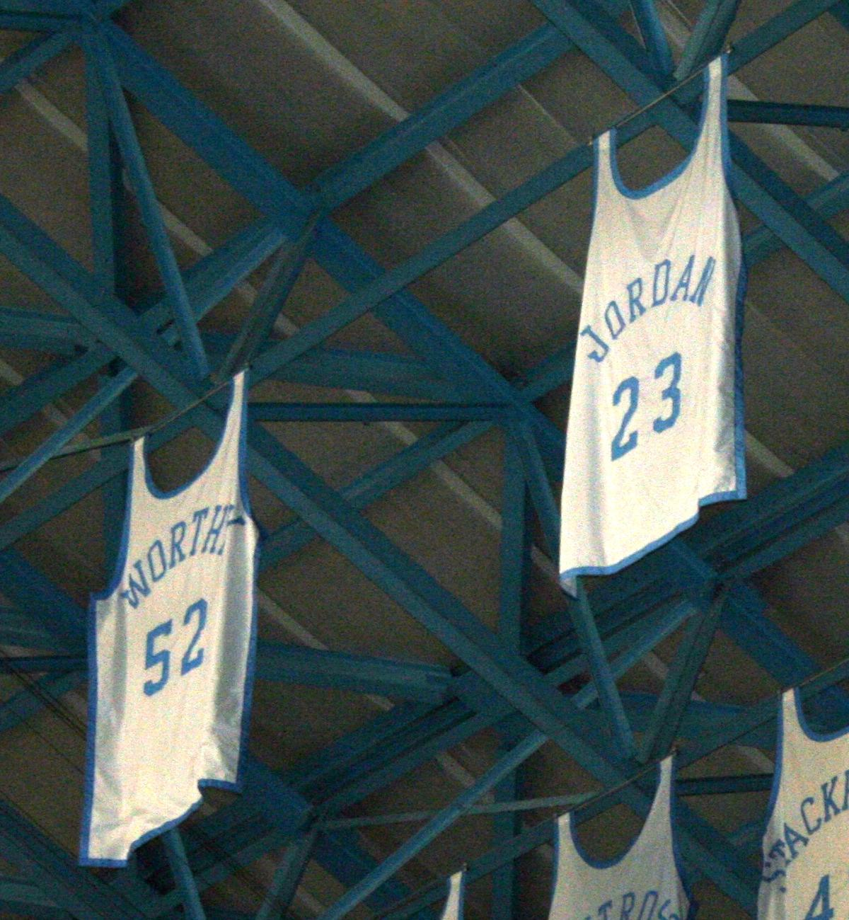 Michael Jordan and James Worthy's college jerseys hanging from the rafters at the Dean Smith Center.